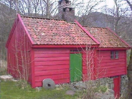 The old bakery in central Vikebygd, Norway. Now a museum. Own picture.